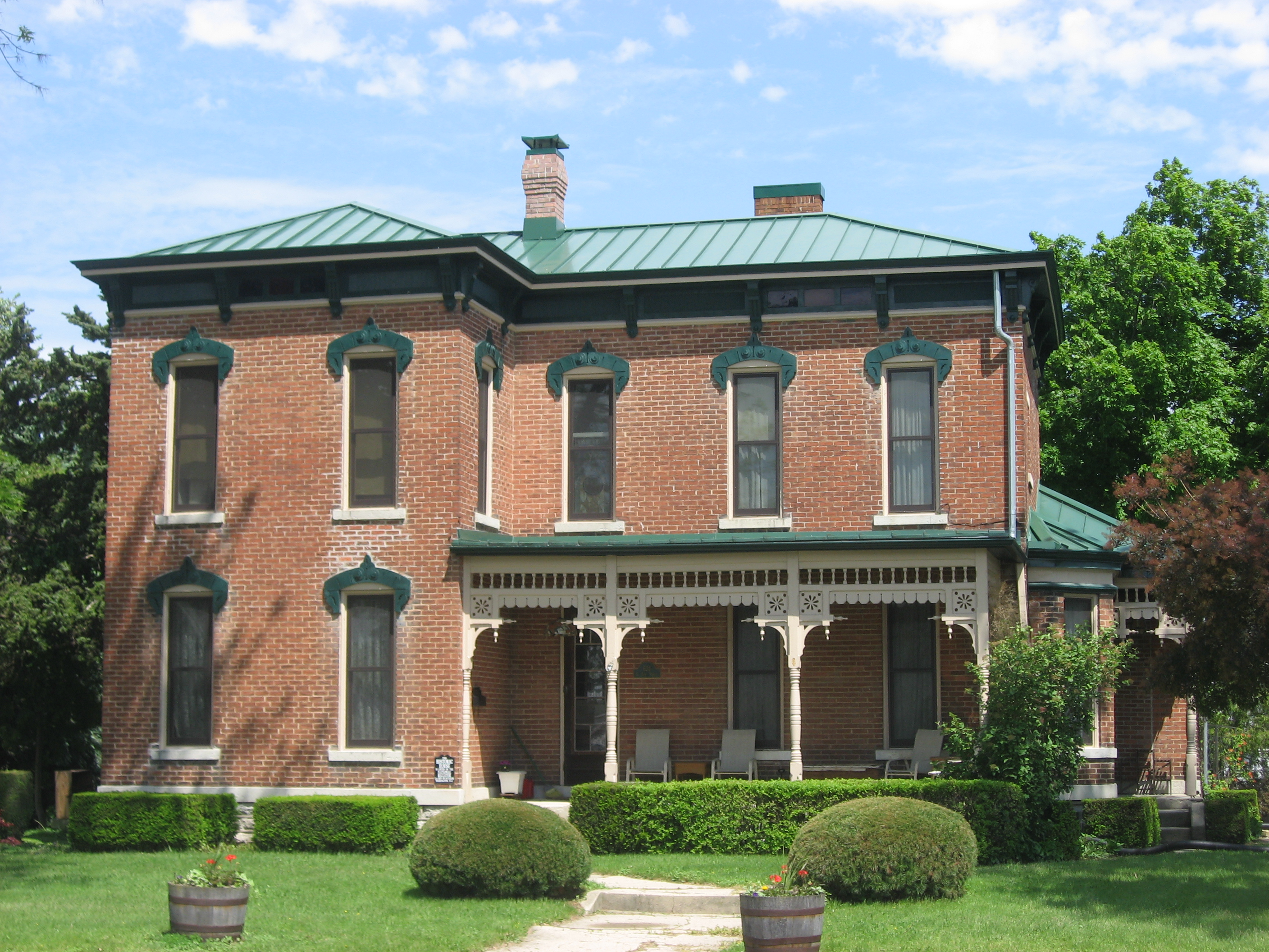 Front of the Lambert-Parent House, located at 631 E. Elm Street (State Route 47) in Union City, Ohio, United States. Built in 1881, it is listed on the National Register of Historic Places.